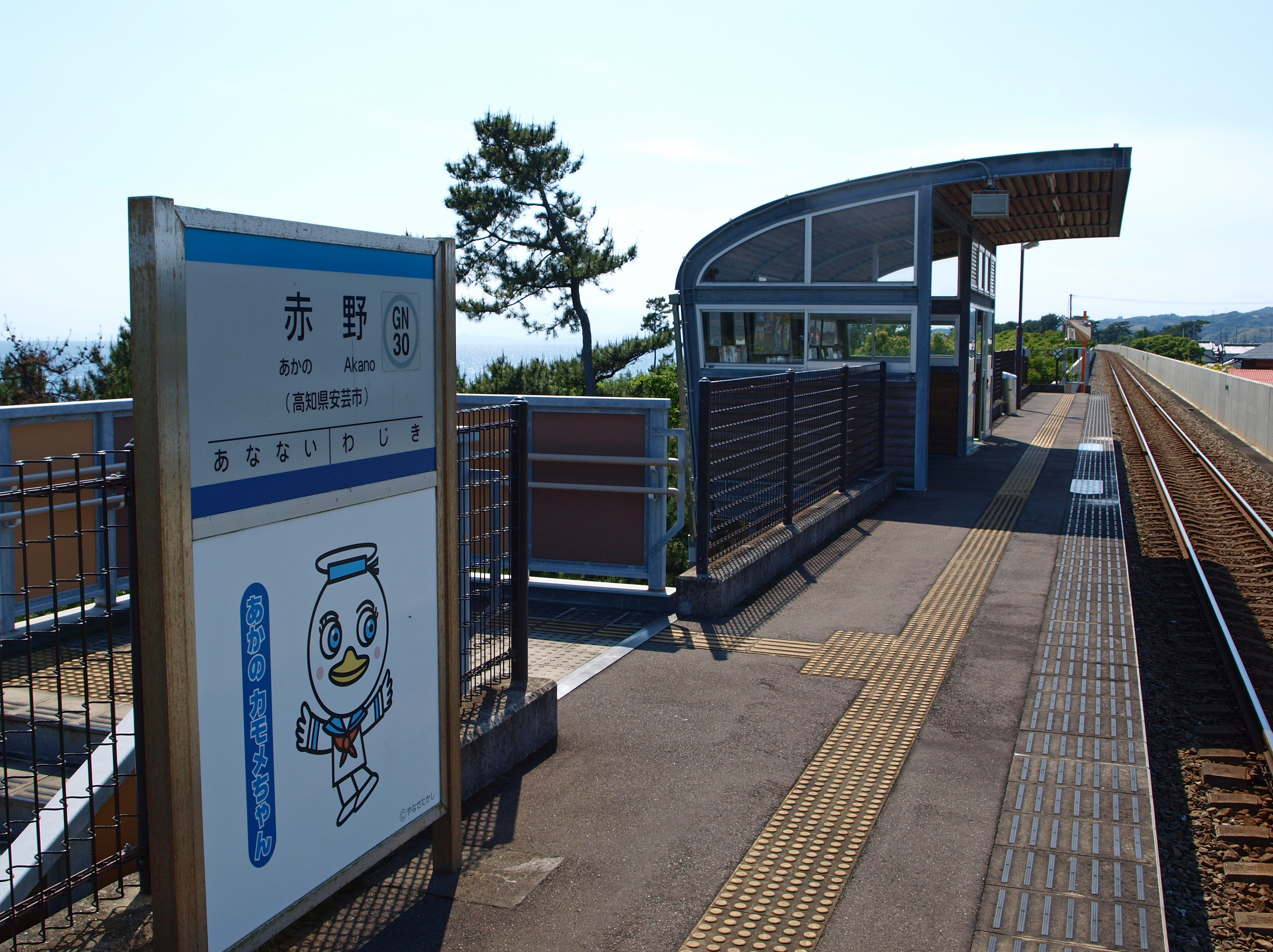 Akano Station, Gomen-Nahari Line（Asa Line), Tosa Kuroshio Railway, Japan